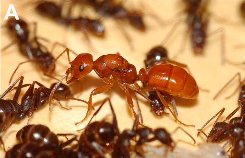 Queen, host workers, and brood of Polyergus lucidus (undescribed subspecies) with host Formica archboldi Photo and description extracted from: King JR, Trager JC. 2007. Natural history of the slave making ant, Polyergus lucidus, sensu lato in northern Florida and its three Formica pallidefulva group hosts. 14pp. Journal of Insect Science 7:42, available online